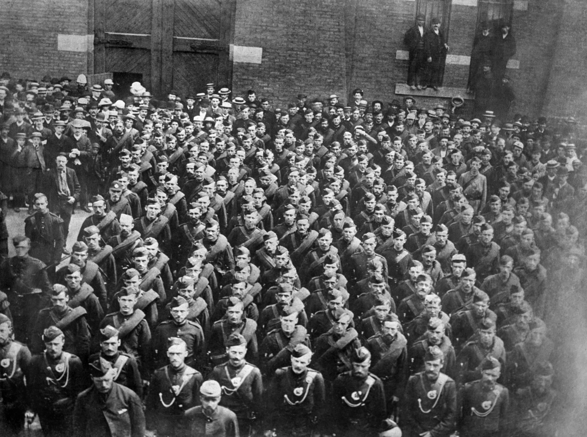 The Queen's Own Rifles of Canada, returning from the Northwest Rebellion in Western Canada, at C.P.R. North Toronto station. Toronto, Ontario, Canada.